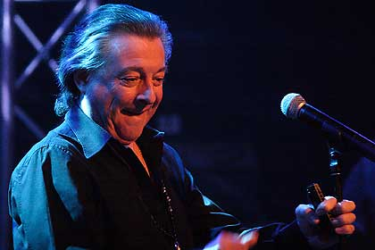 Kirka (1950–2007) on his last public gig at Ravintola Foxia in Oulu, Finland, January 19, 2007.